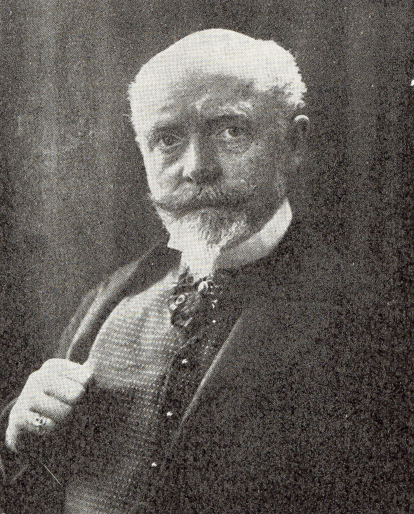 The Swedish architect Magnus Dahlander